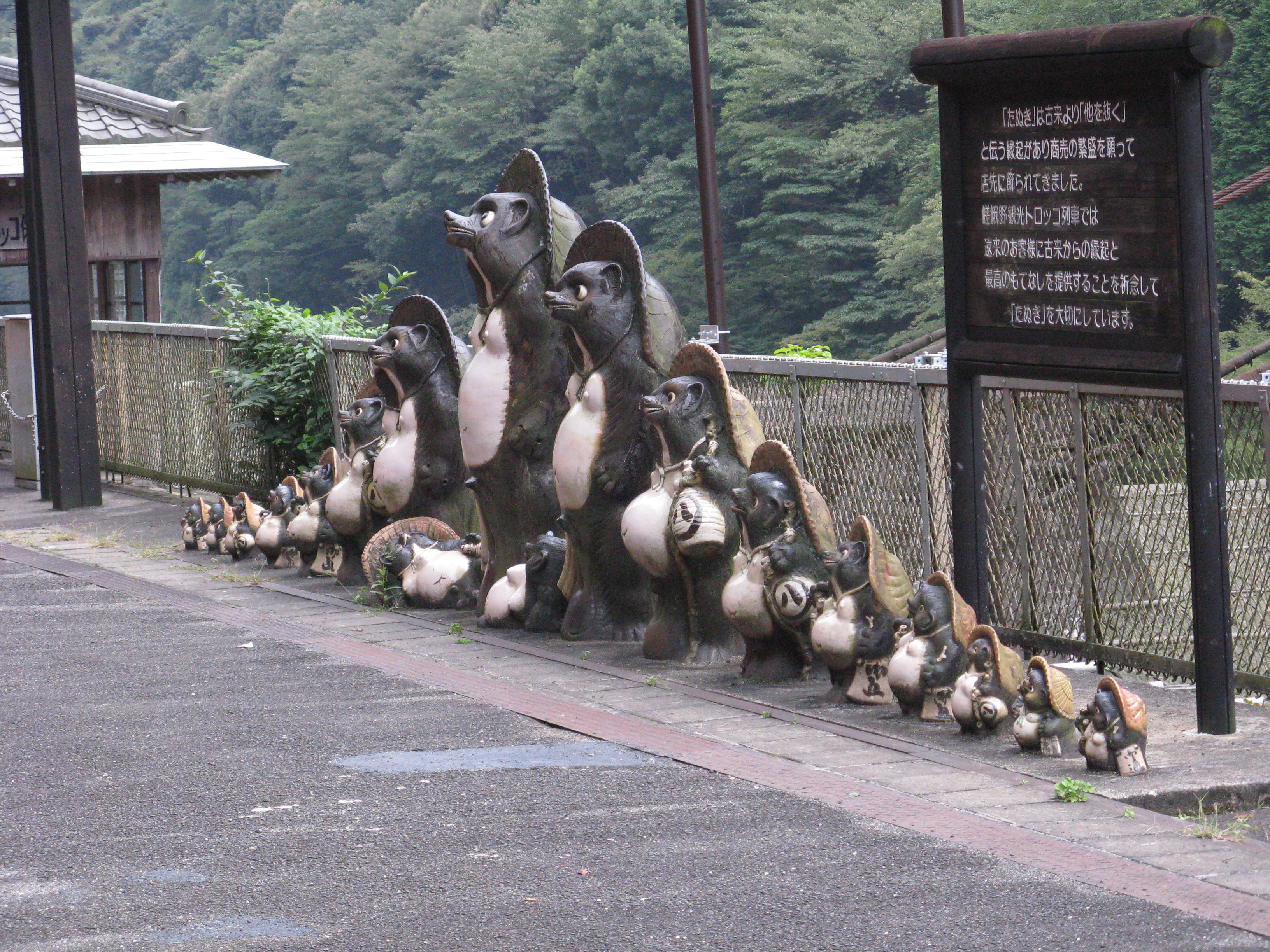 Tanuki statues (Nyctereutes procyonoides), Romantic Train trail, Japan